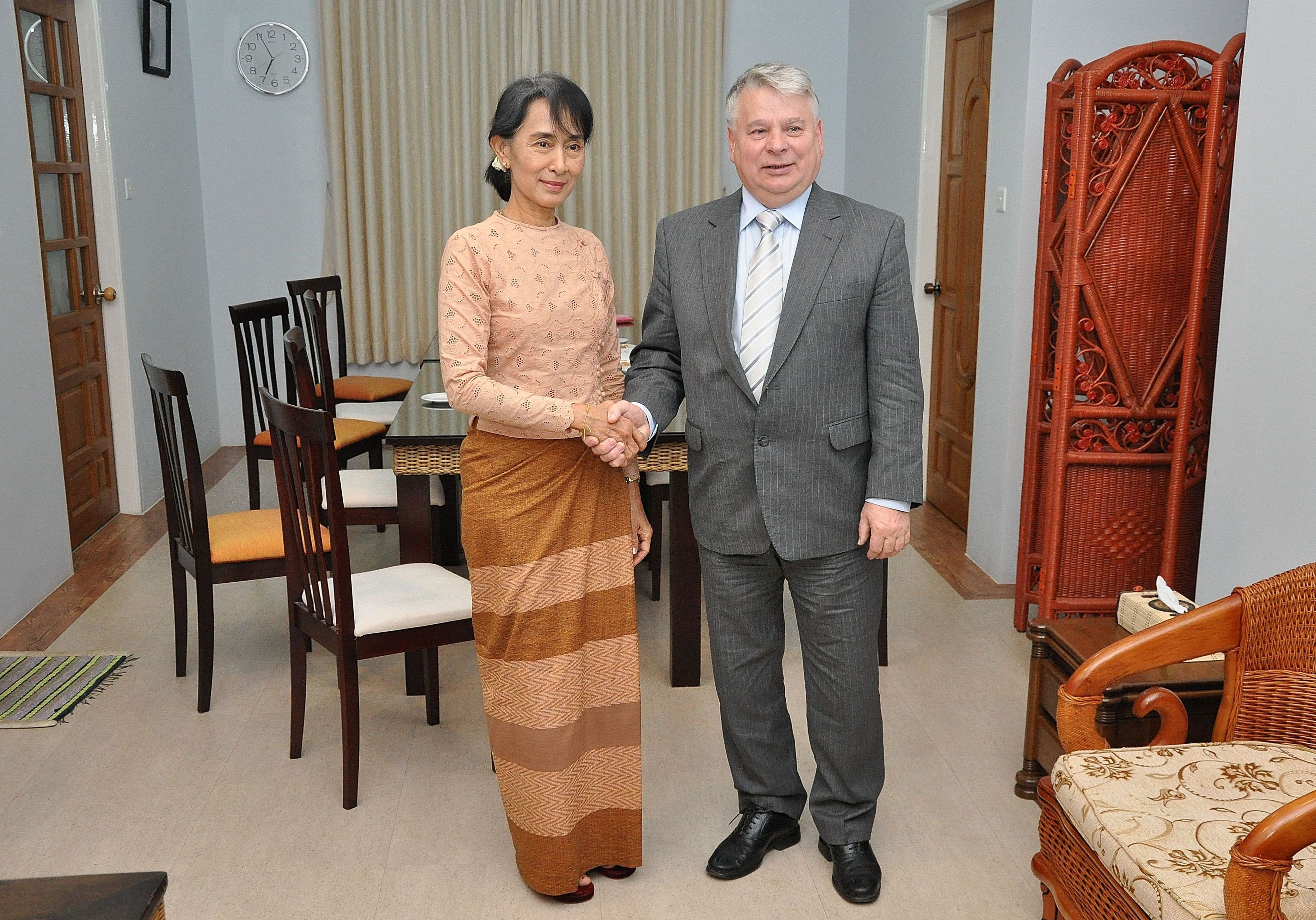 Burmese opposition politician Aung San Suu Kyi and Marshal of the Polish Senate Bogdan Borusewicz